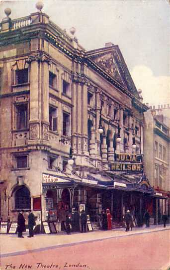 New Theatre (later Albery Theatre, Noel Coward Theatre), St. Martin's Lane, London. From a postcard circa 1905.